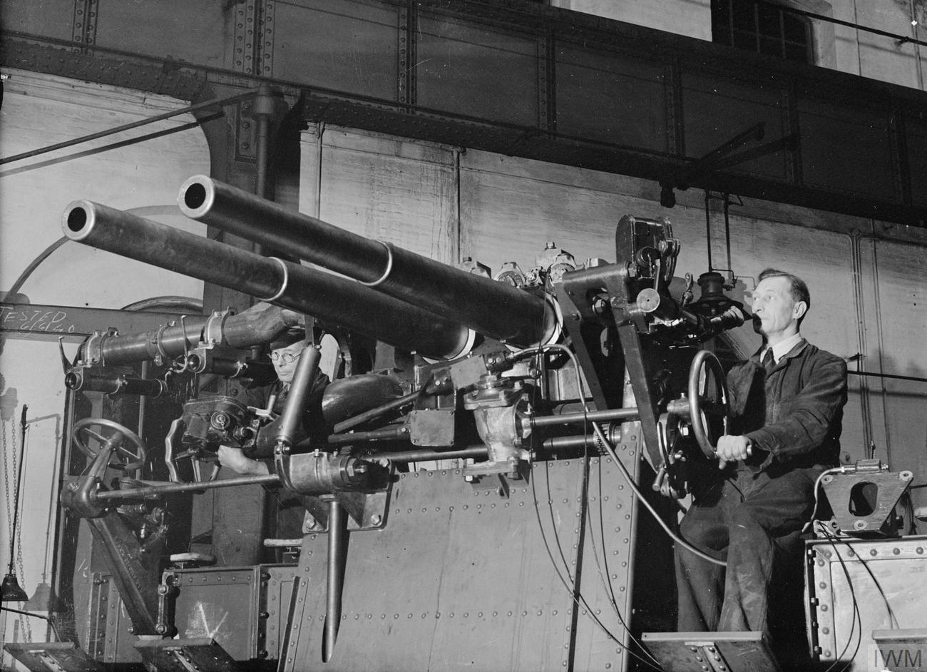 IWM caption : "Munitions production: Work being carried out on a 6 pounder twin coastal artillery gun. Workers in a Ministry of Supply ordnance factory aligning the sights of the gun in elevation." Comment : The guns are QF 6 pounder 10 cwt.